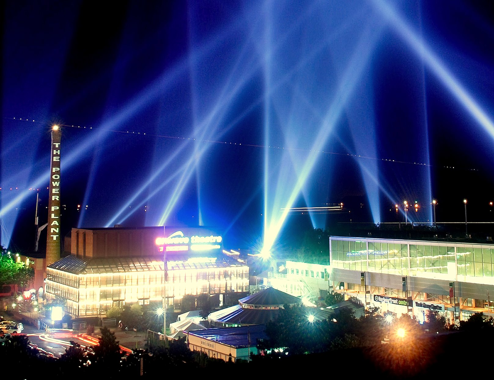 Pulse Front installation at Toronto Harbourfront by Mexican-Canadian artist Rafael Lozano-Hemmer